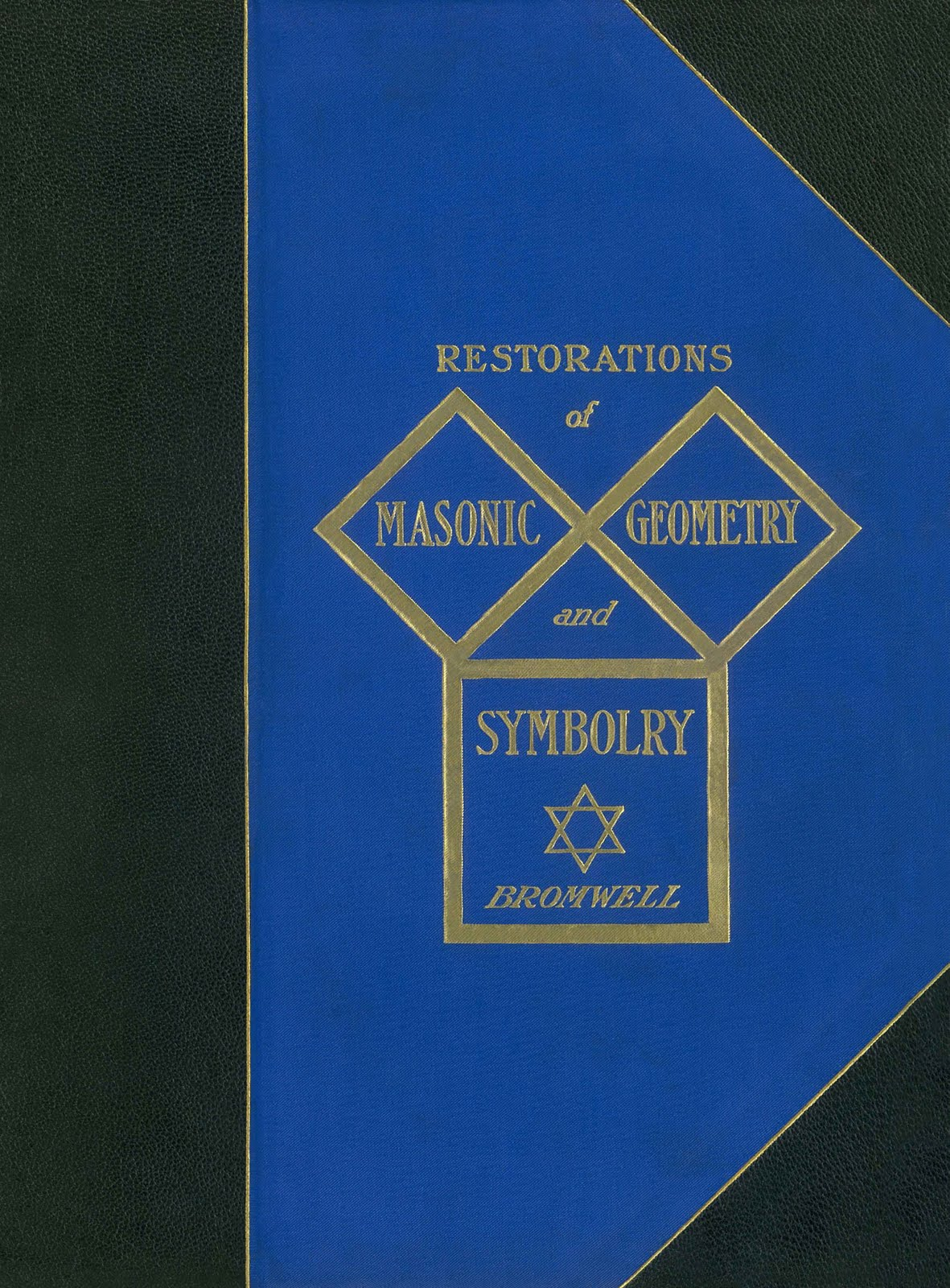 Restorations of masonic geometry cover